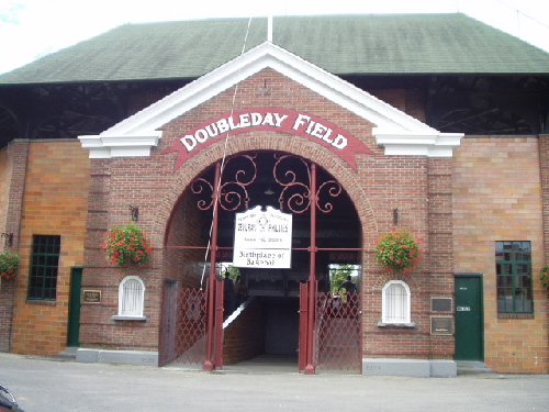 19:18, 5 October 2006 . . Flibirigit . . 500×375 (141,960 bytes)